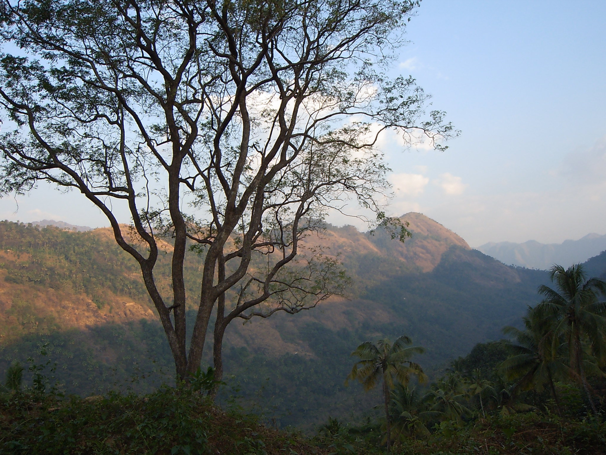 Screenshot of the Geography of the hilly region of Kaippally in Poonjar